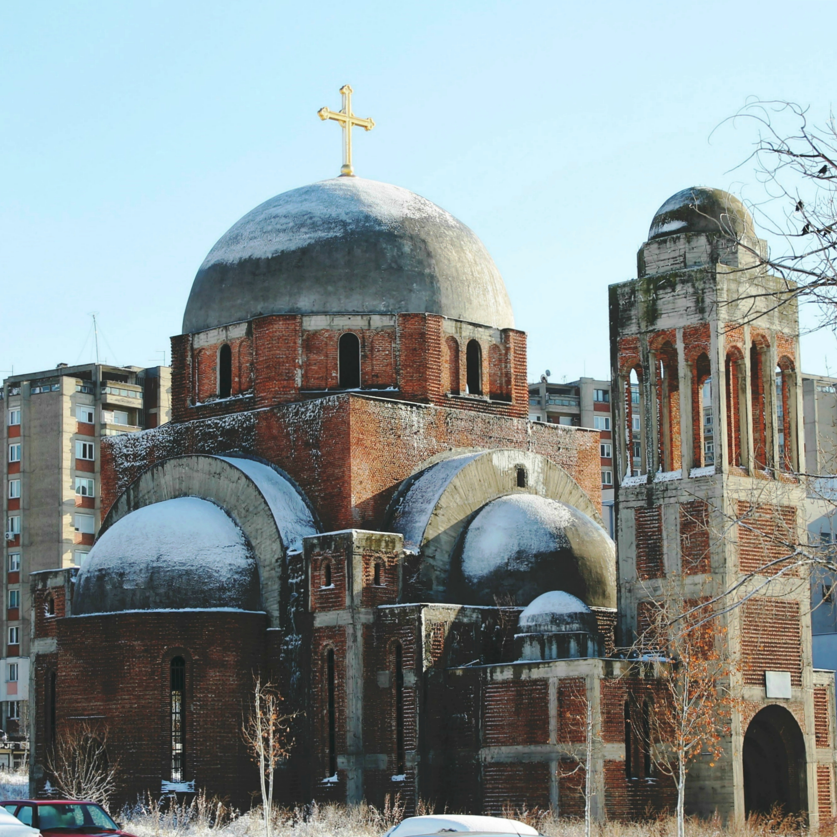 Winter in Priṧtina